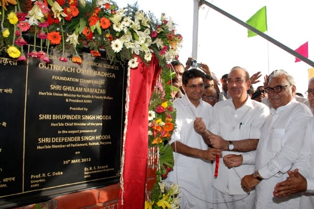 AIIMS II Haryana